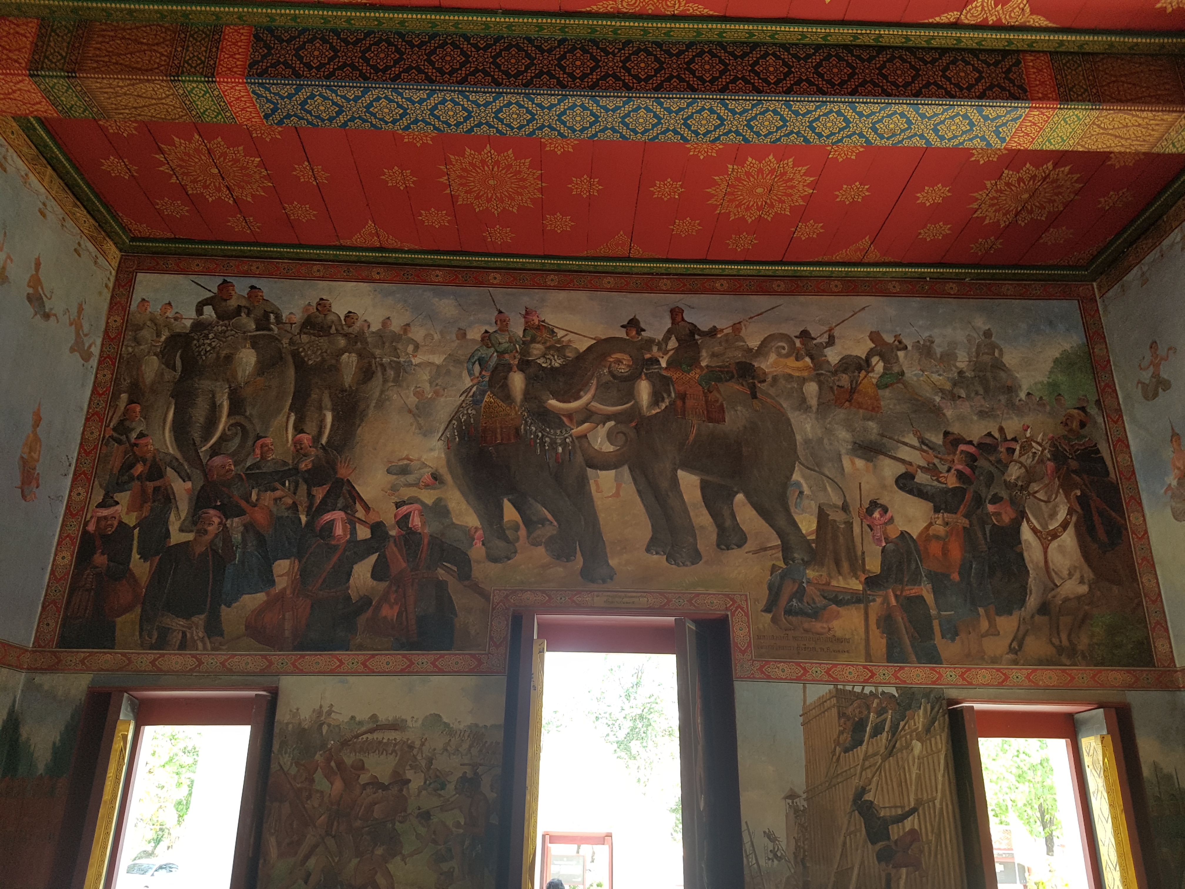 Mural paintings inside the wihan of Wat Suwan Dararam, Phra Nakhon Si Ayutthaya Province, Thailand. Main painting: Naresuan the king of Ayutthaya engaged in an elephant duel with Mingyi Swa the crown prince of Taungoo in 2135 Buddhist Era (falling between 1592/93 Common Era). Painter: Noble title: Phraya Anusat Chittrakon (พระยาอนุศาสนจิตรกร) Real name: Chan Chittrakon (จันทร จิตรกร) Year painted: 2474 Buddhist Era (falling between 1931/32 Common Era)